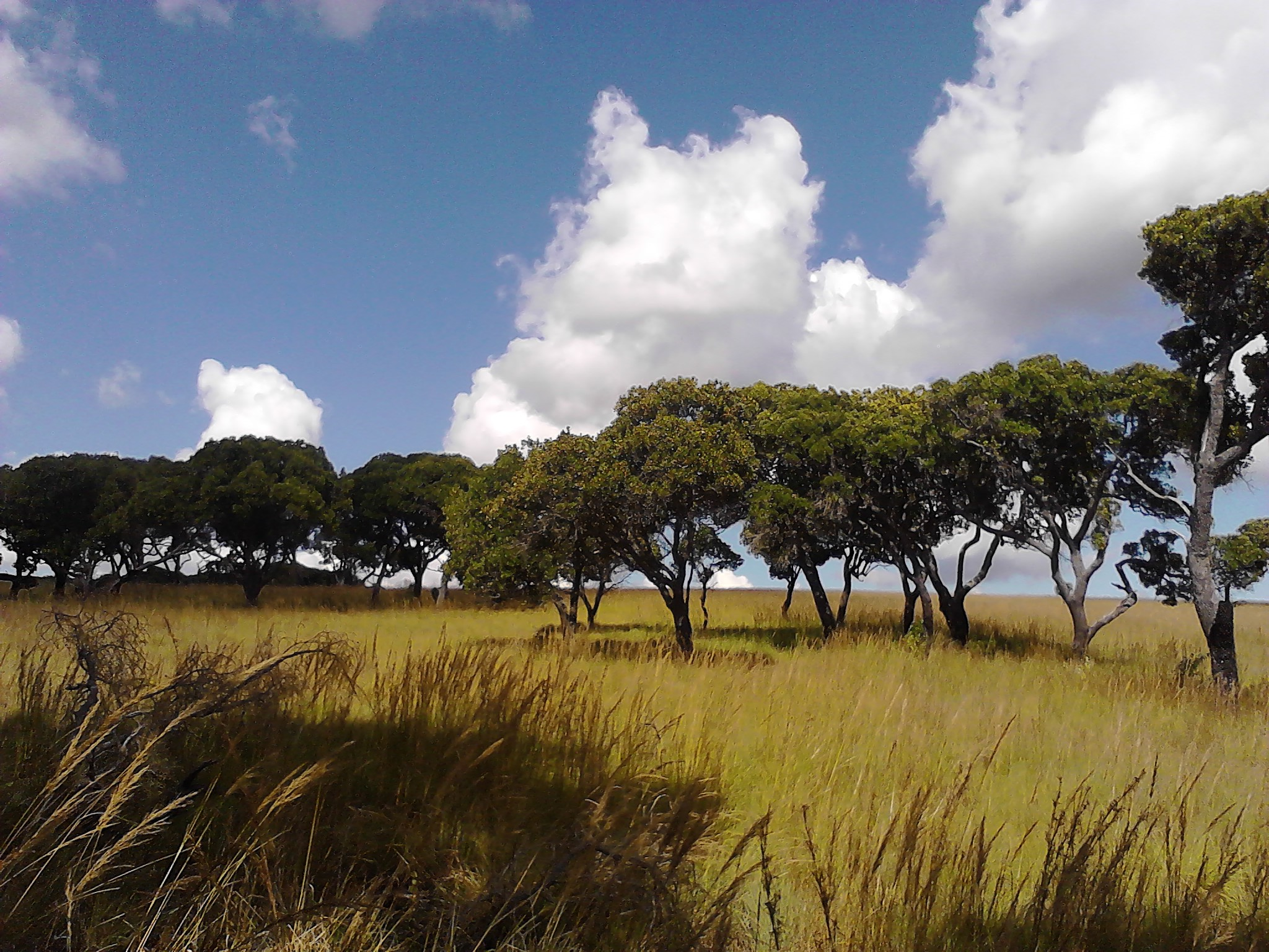 Tapia (Uapaca bojeri) woodland with grassy understory. Itremo protected area, Central Highlands of Madagascar.